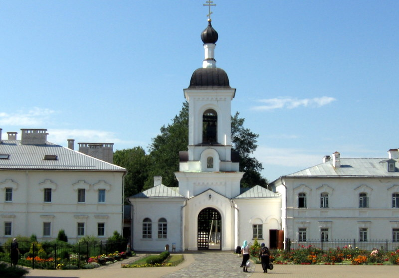 Convent of Saint Euphrosyne, Polatsk